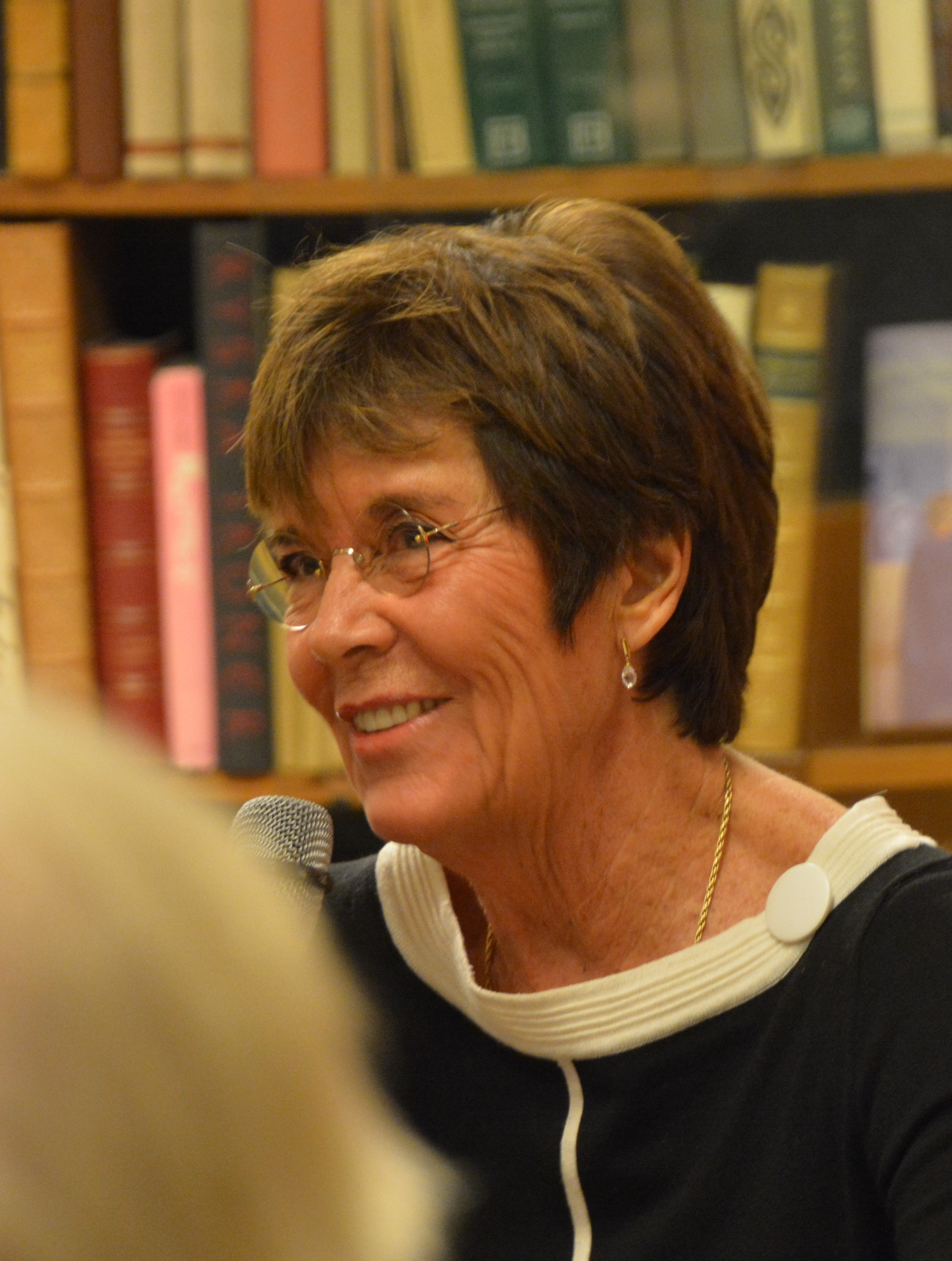 Ingela Lind, författarafton på Rönnells antikvariat 6 december 2014